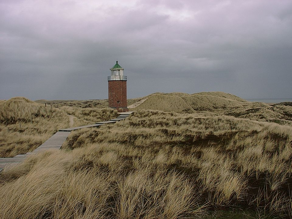 Old lighthouse Rotes Kliff on Sylt. Old lighthouse "Rotes Kliff" near Kampen on Sylt island, Germany. Licensed under CC-BY-SA-2.5, Sylt.